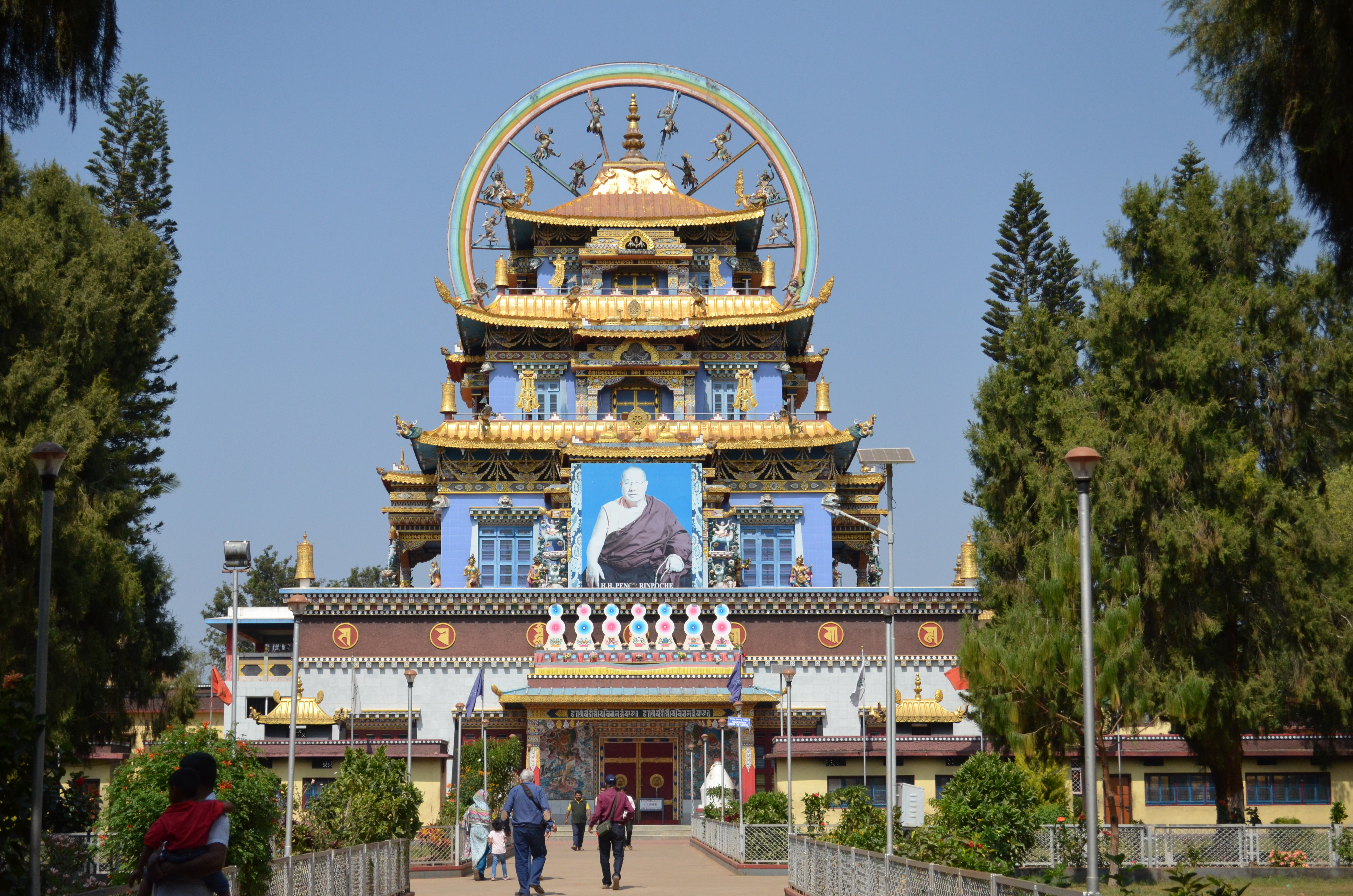 Jain Temple